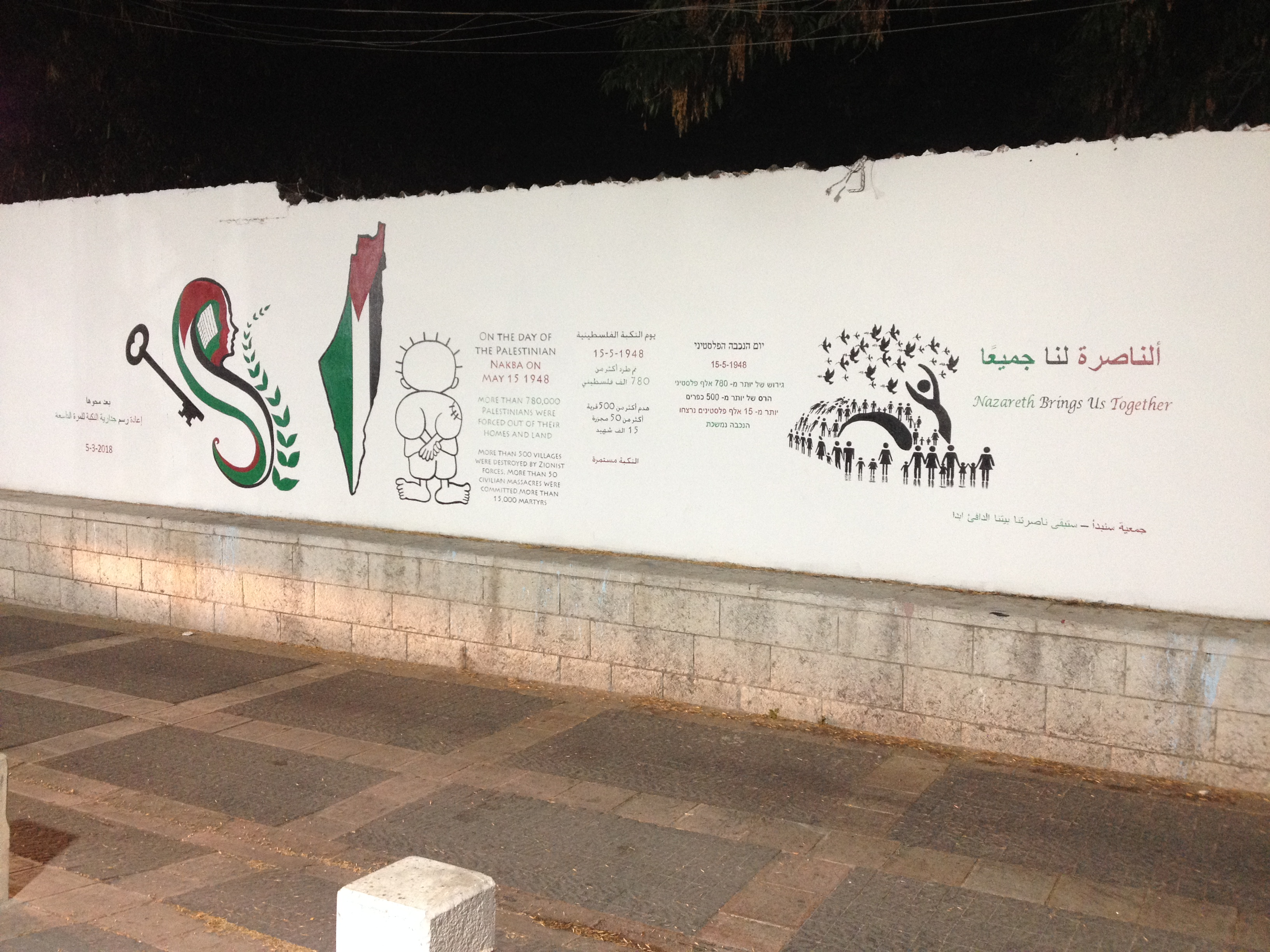 Nazareth wall explanations on the conflict with Handala